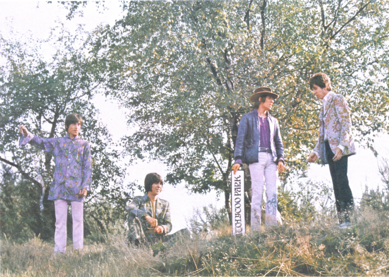 Small Faces in 1967. Left to right: Kenney Jones, Ian McLagan, Steve Marriott and Ronnie Lane. Photographer is unknown.